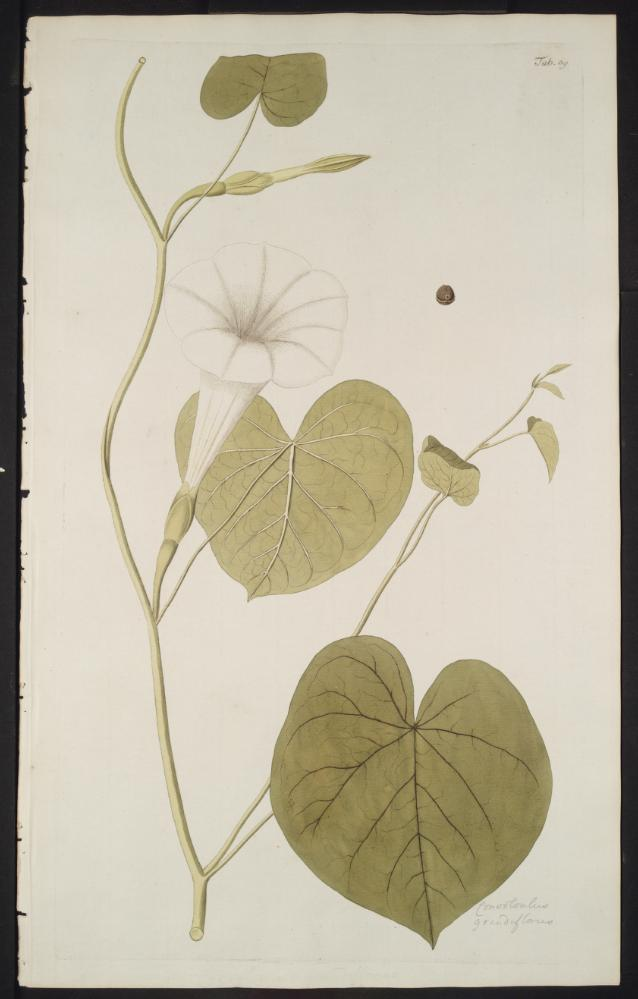 Illustration of Ipomoea violacea